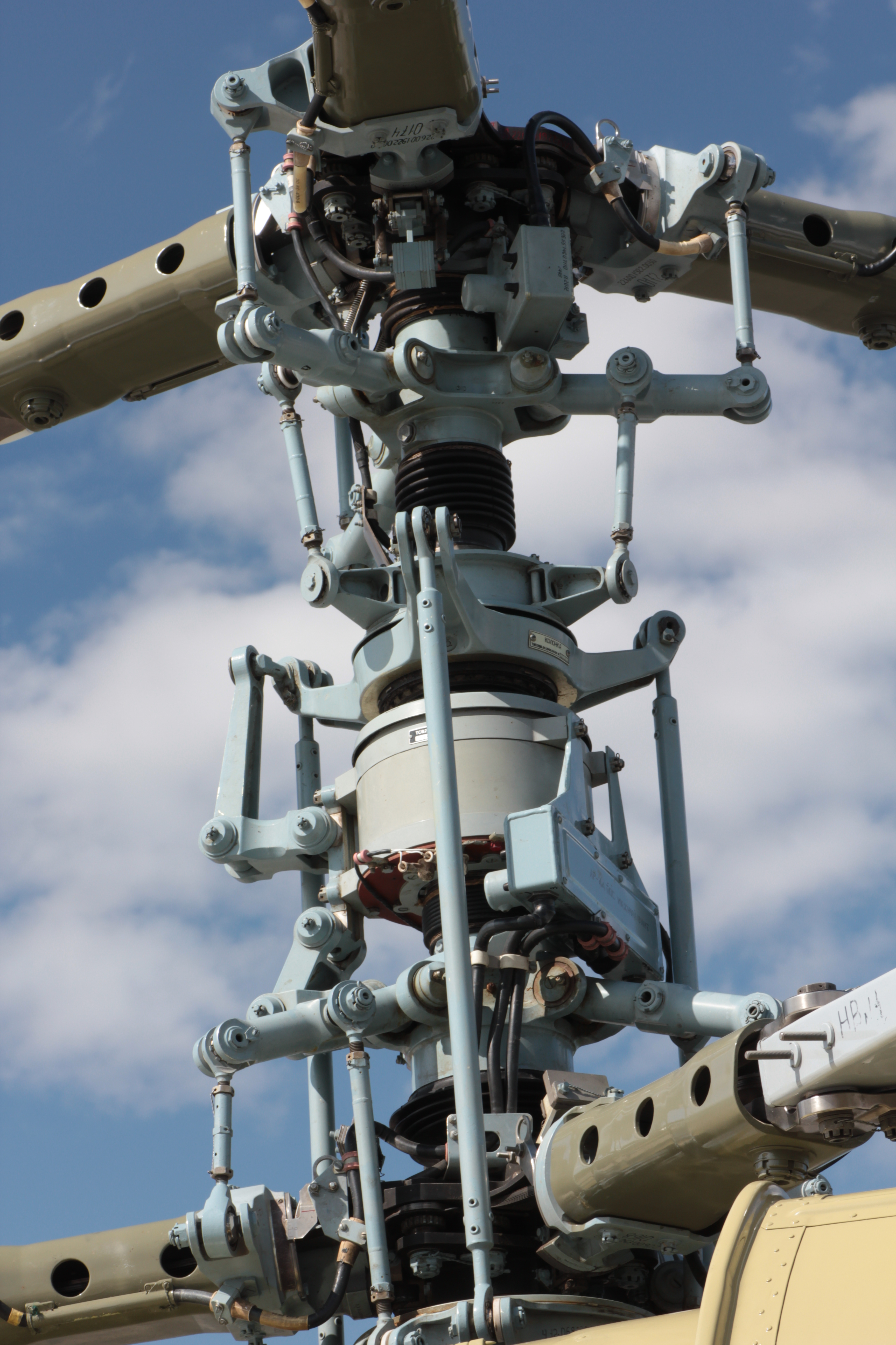 Mil Mi-28NE.